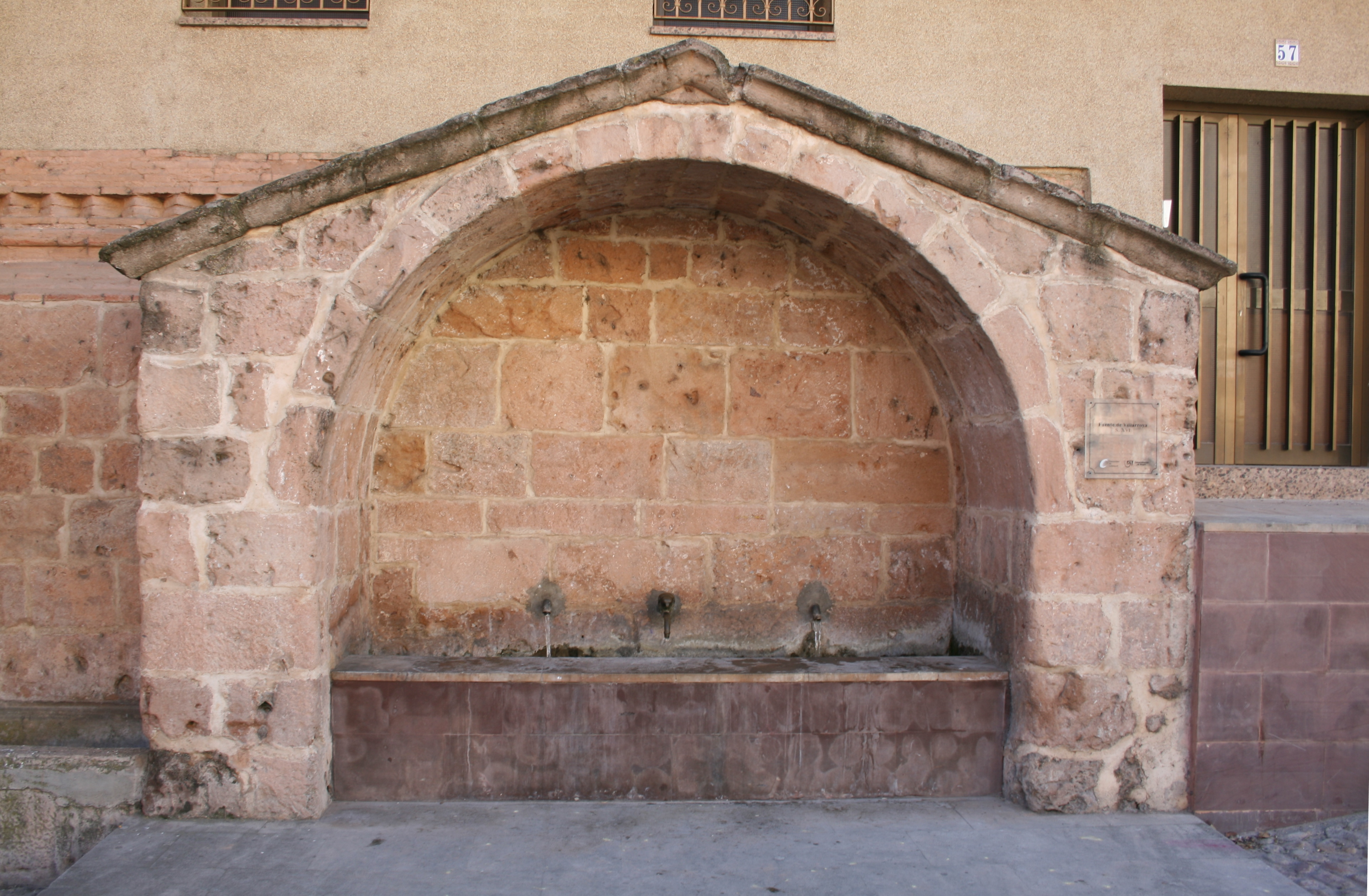 Fountain of Villarroya, Villarroya, Spain